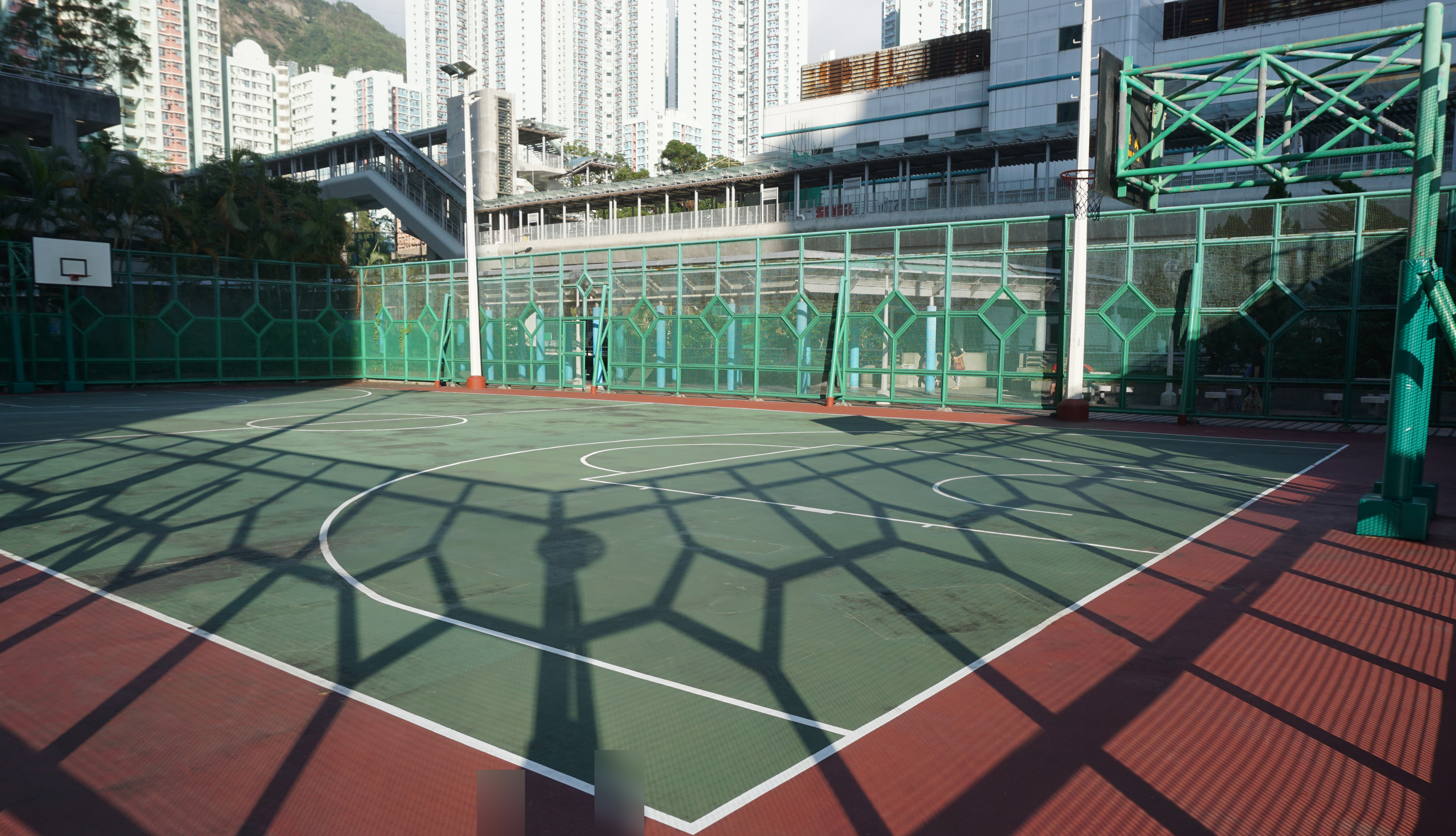 Tsz Lok Estate in Tsz Wan Shan, Hong Kong.